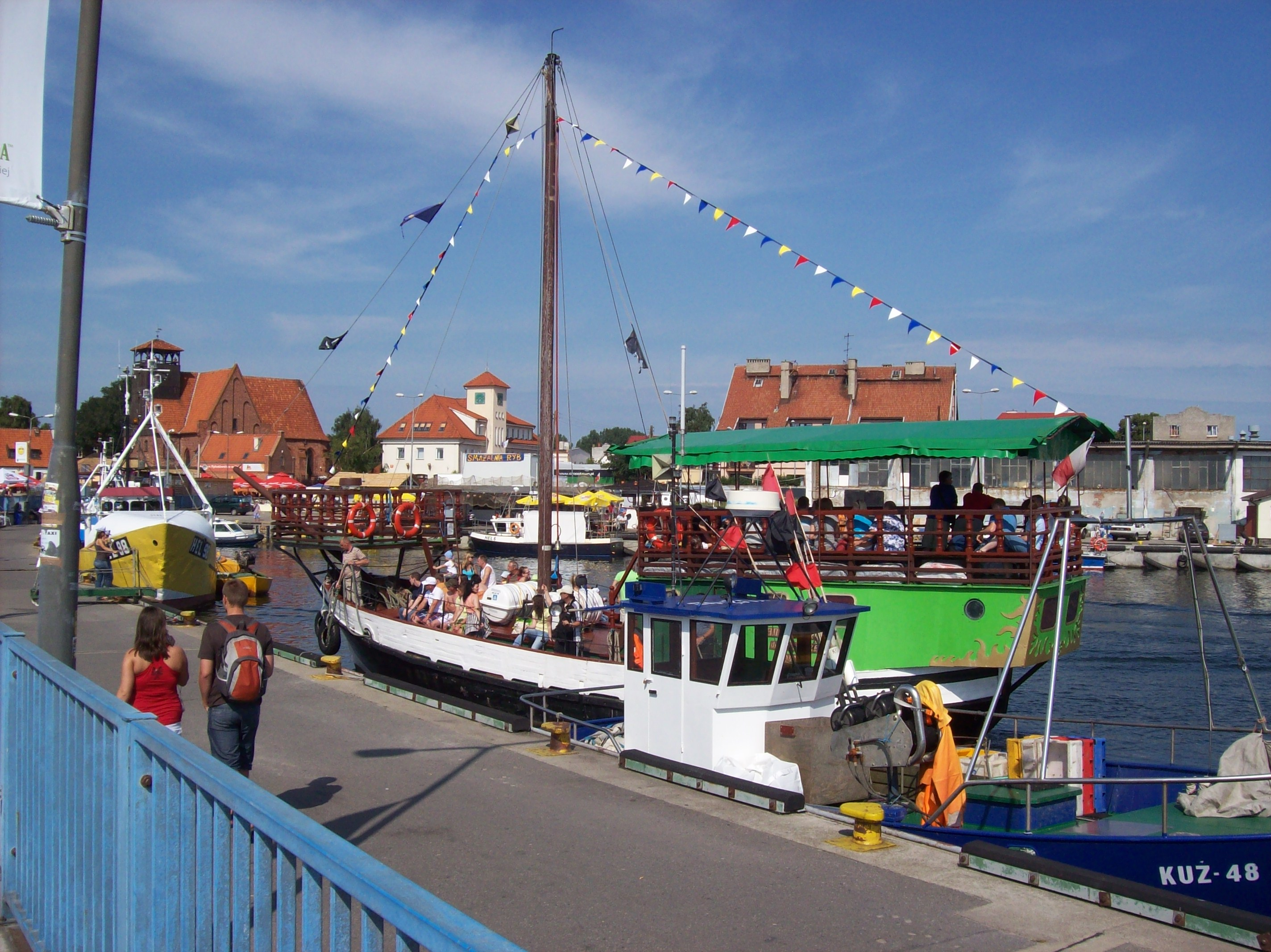 Hel - port